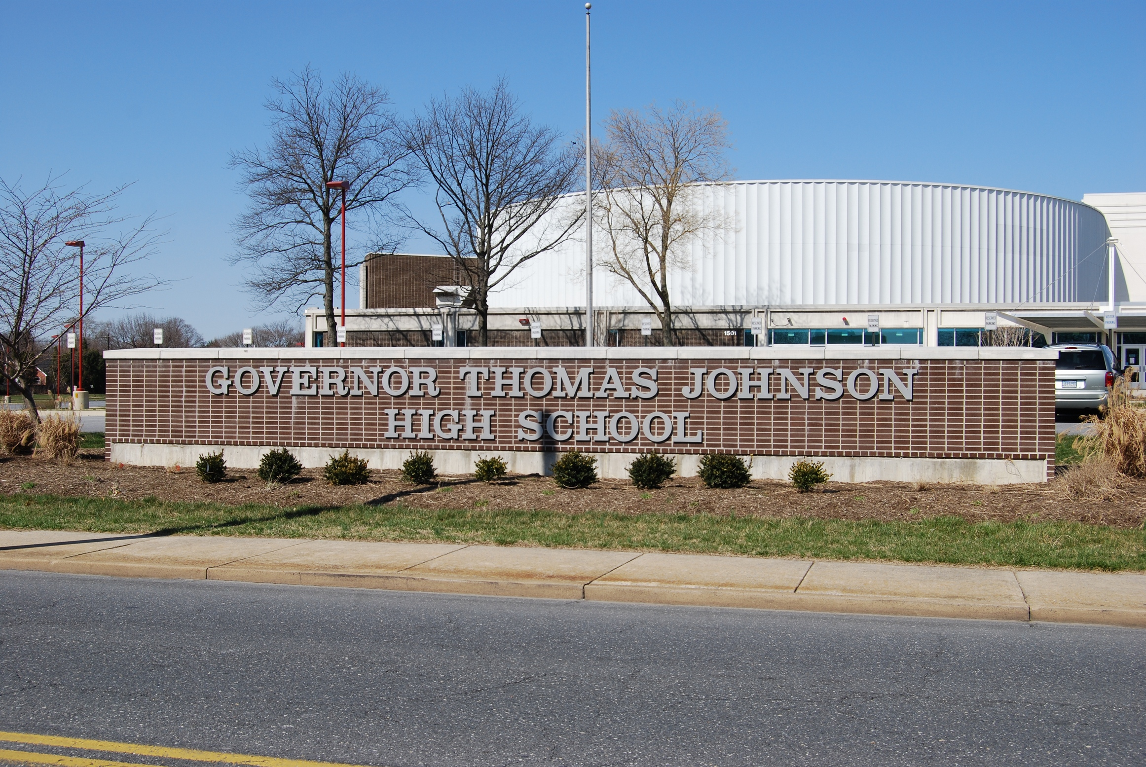 Governor Thomas Johnson High School Sign